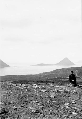 Koltur (in the background), Faroe Islands